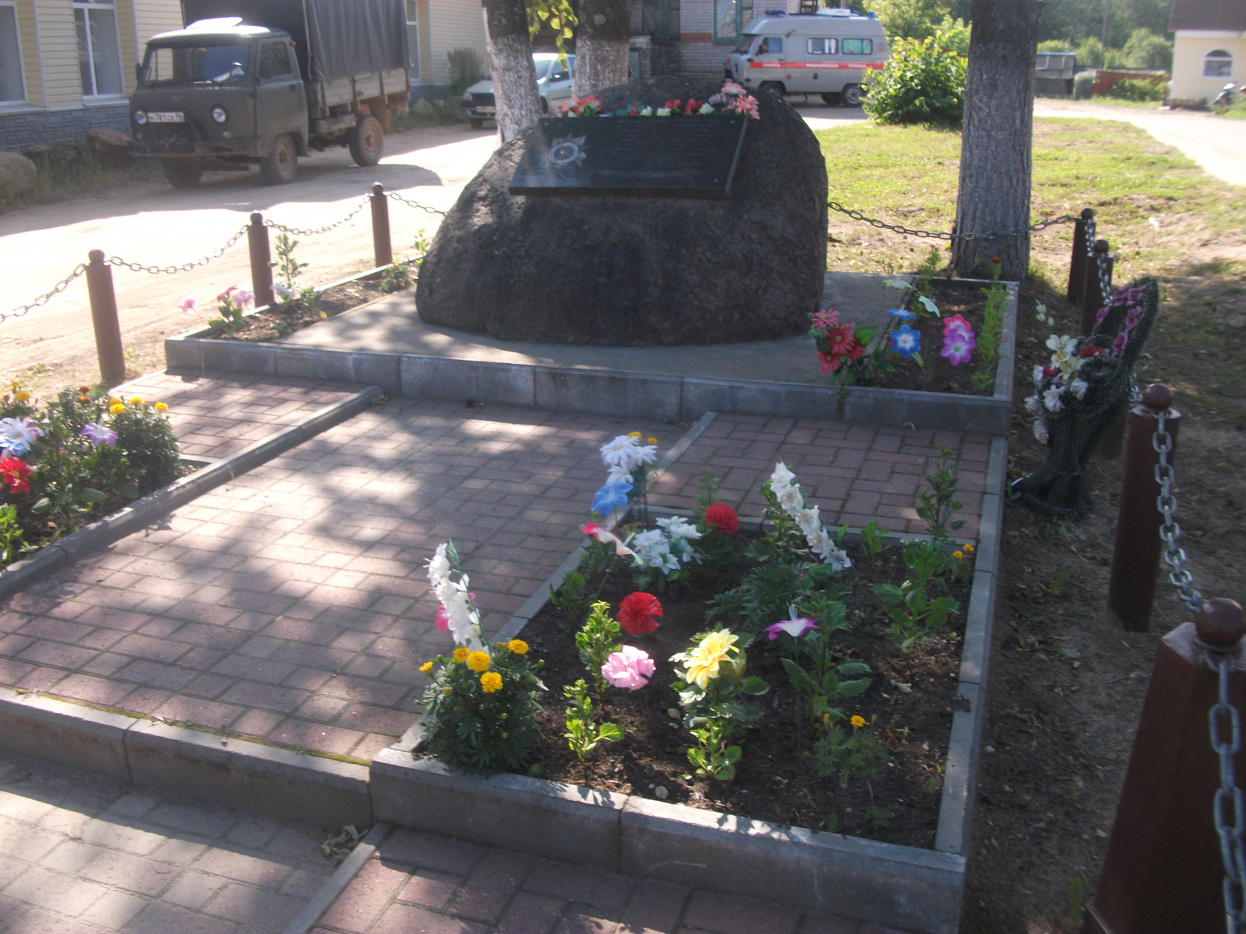 Pliussa, the stone of the honour of partisans and movement of Resistance in WW II